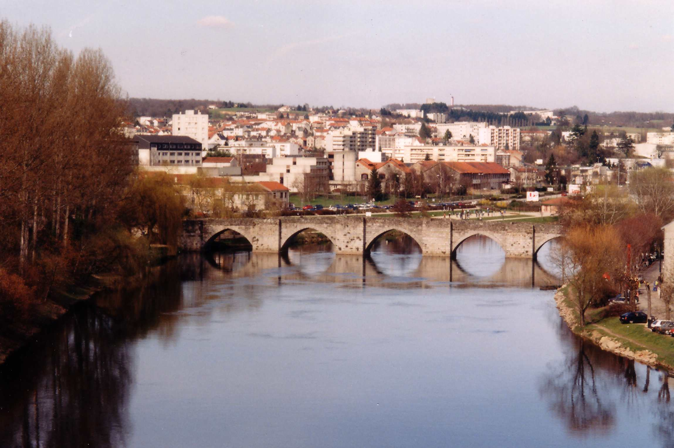 Limoges, bridge Saint Etienne